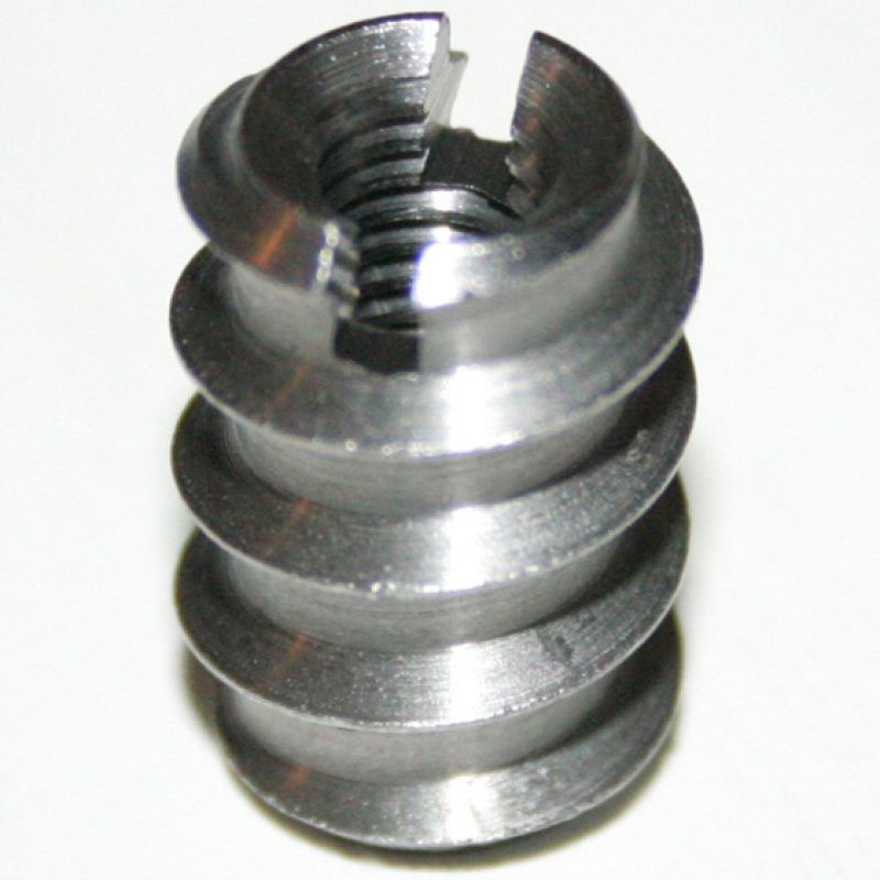 The simplest way to describe a "rampamuff" would be that it's like a nut with an outside thread that makes it possible to screw it into a piece of wood